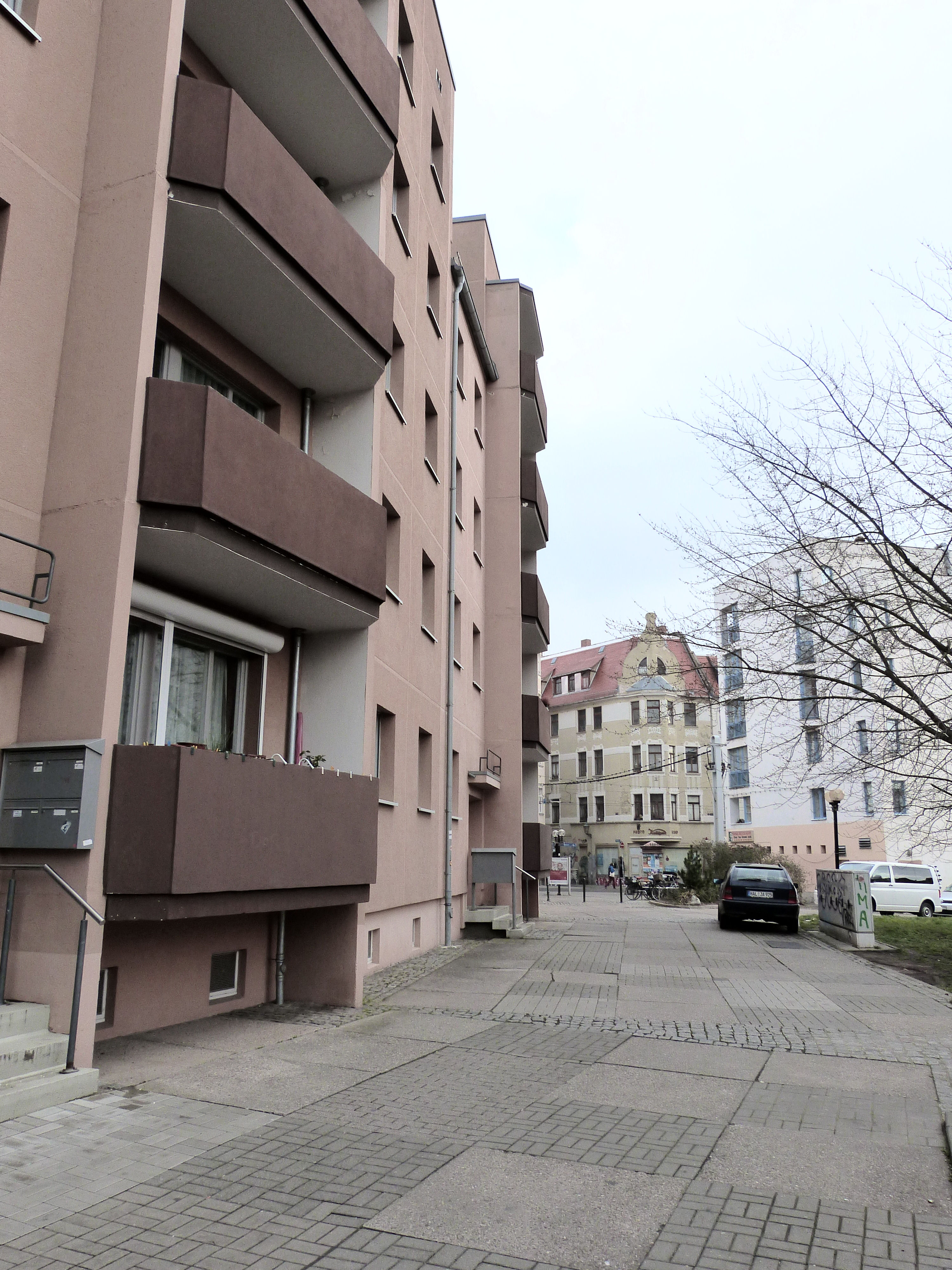 Street Zapfenstrasse, Halle (Saale), view to the Schmeerstrasse